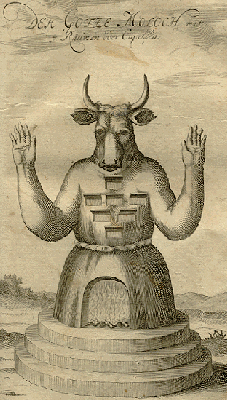 An 18th-century German illustration of Moloch (DER GÖTZE MOLOCH mit 7 Räumen oder Capellen. "The Moloch Idol, with 7 chambers or chapels").